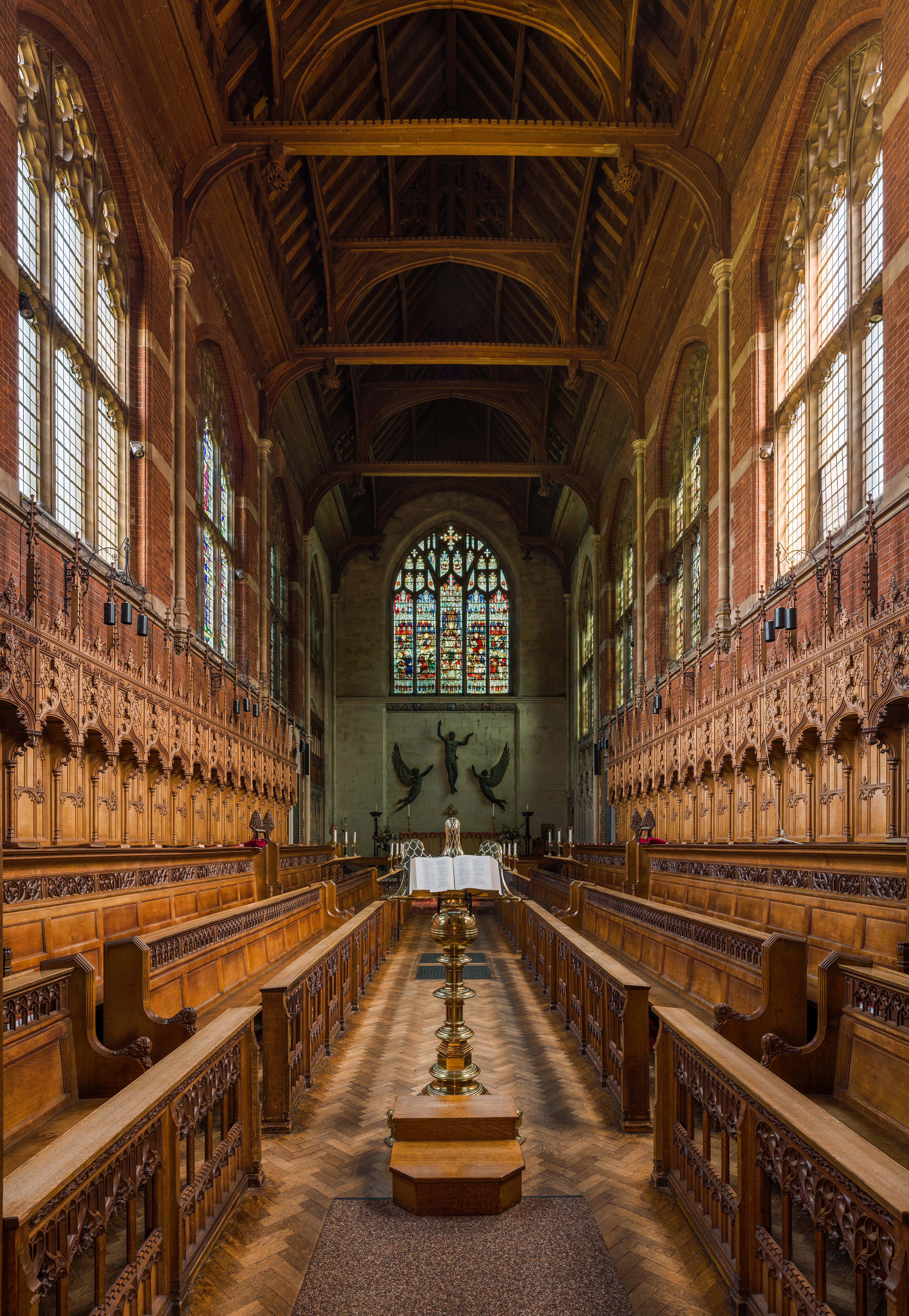 The chapel of Selwyn College facing east toward the altar in Cambridge, England.